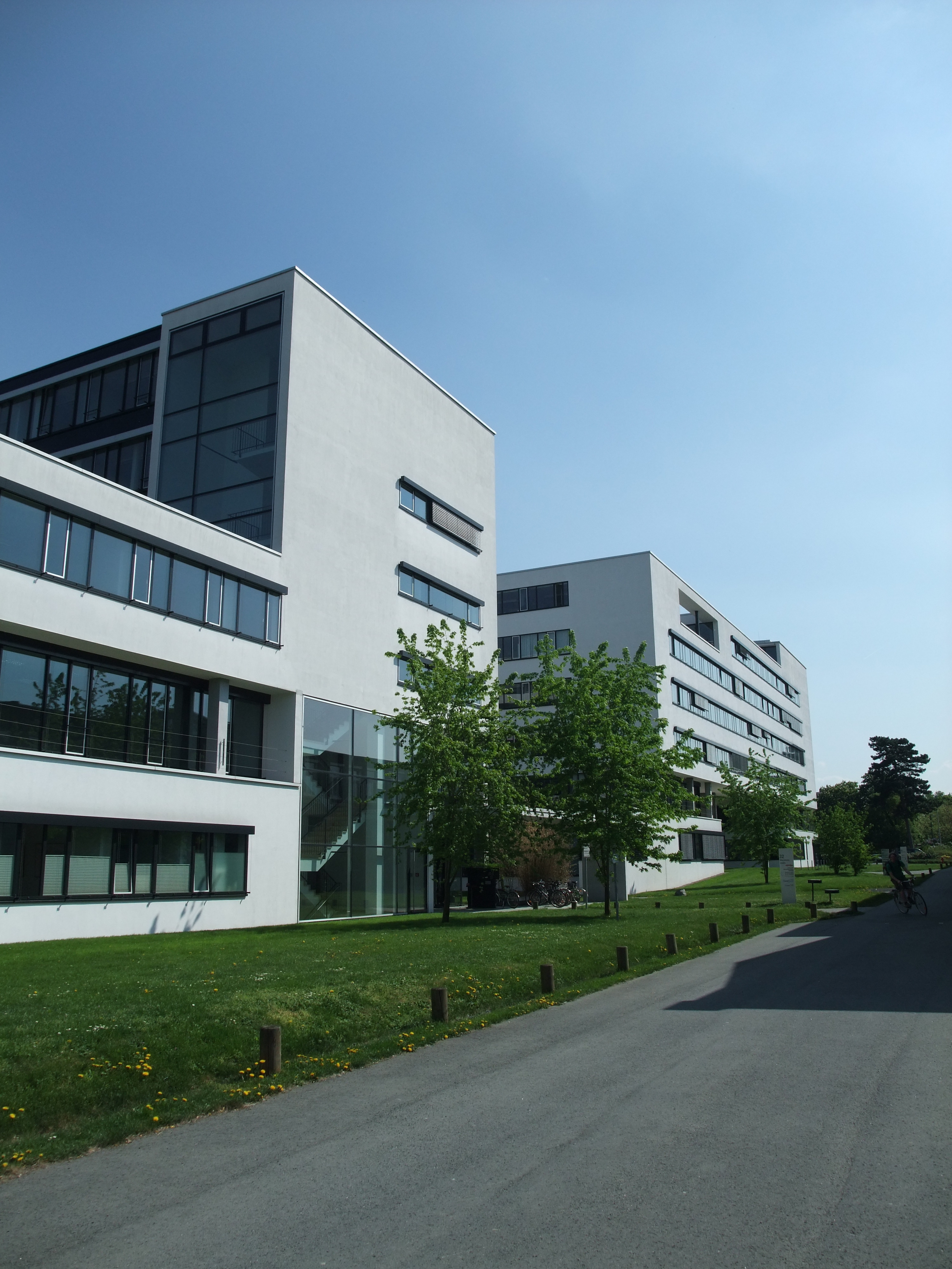 Head Quarter of the Center of Advanced Security Research Darmstadt is located in Mornewegstrasse 32 in Darmstadt, Germany